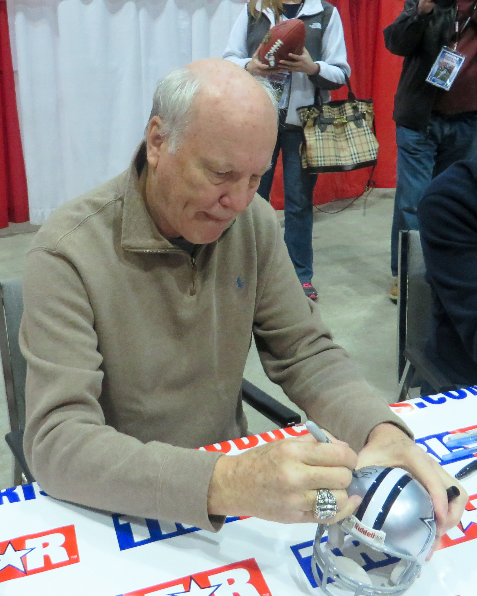 Former Dallas Cowboys safety Cliff Harris signs autographs at a Tristar Productions sports collectors show in Houston in January 2014.